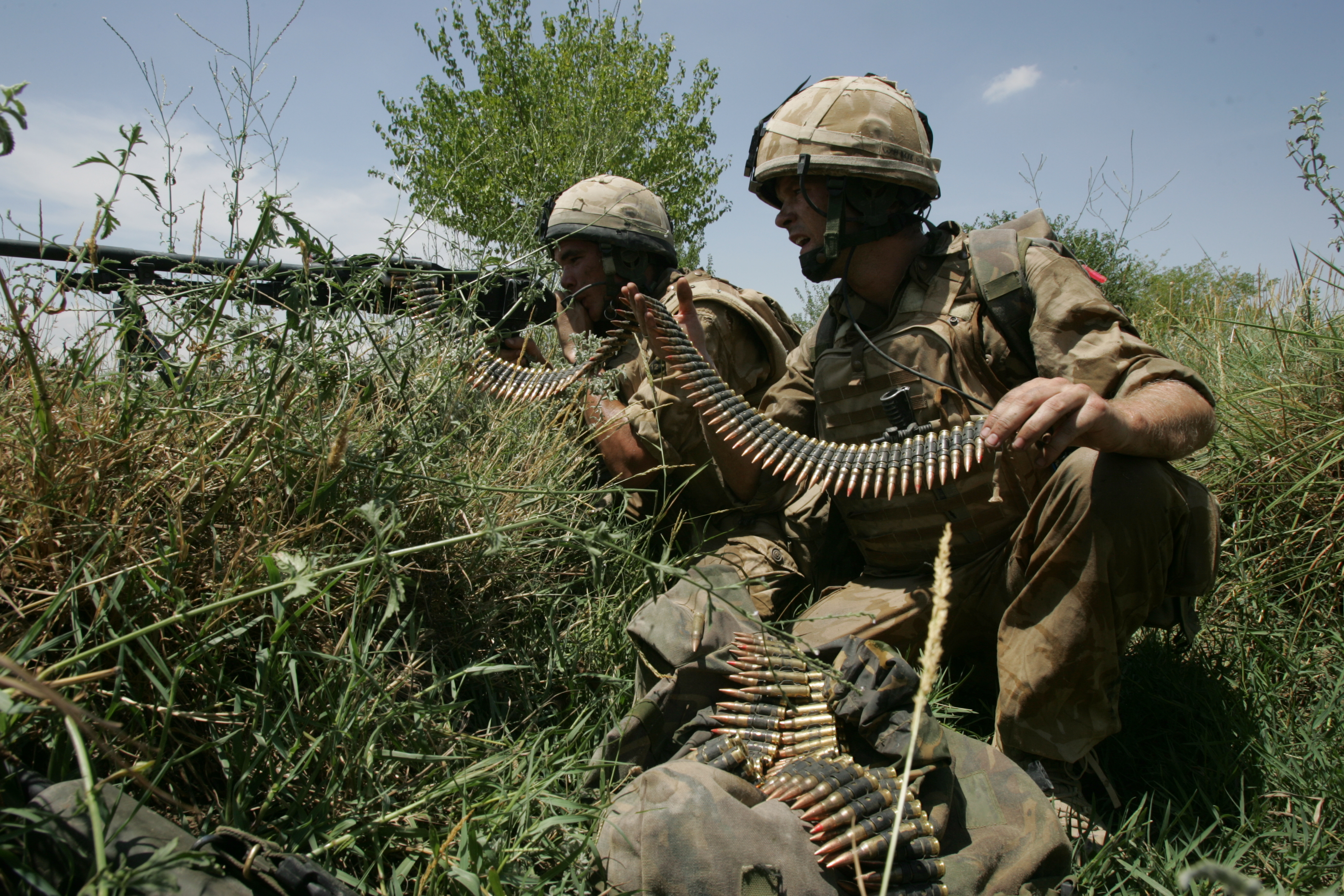 Anglians Helmand 1